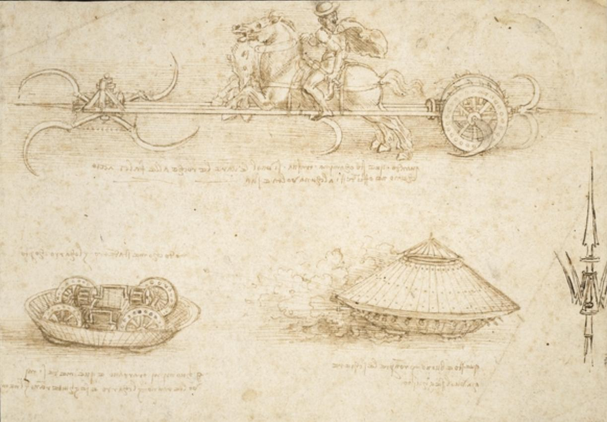 Drawing bij Leonardo da Vinci of a scythed chariot and an armoured tank.